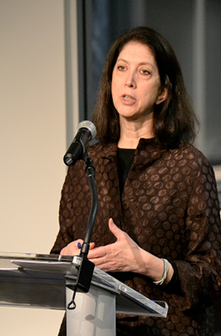 Shelley H. Metzenbaum, Associate Director for Performance and Personnel, Office of Management and Budget, Washington, D.C.